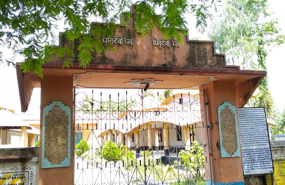 Ishwar Chandra's House at Birsingha village, Paschim Medinipur, WB, India.